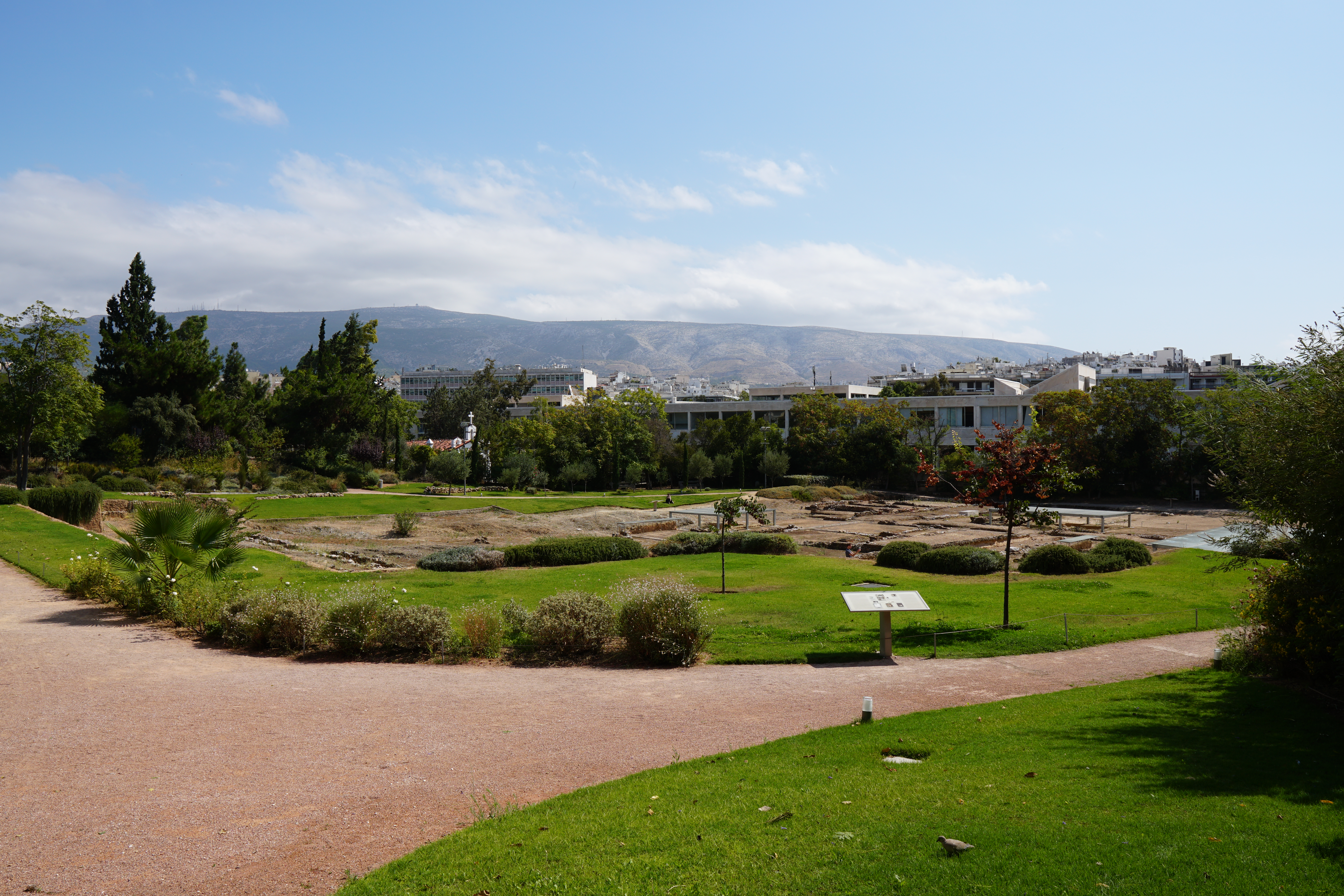 Remains of the palaestra of the Lyceum of Aristotle seen from outside the fence on Rigillis Street in Athens, Greece.